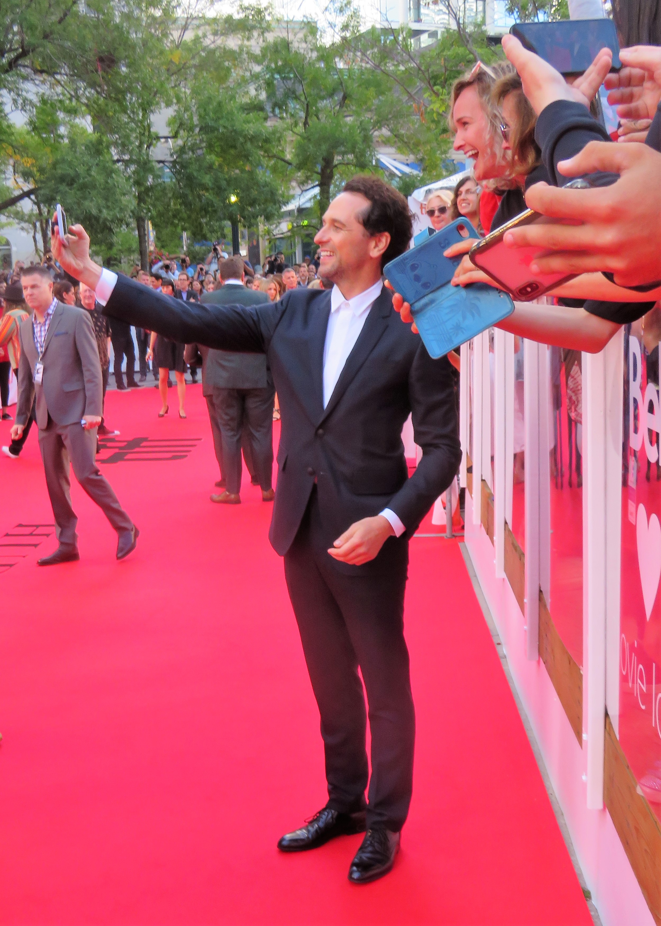 Matthew Rhys at the premiere of A Beautiful Day in the Neighborhood, 2019 Toronto Film Festival